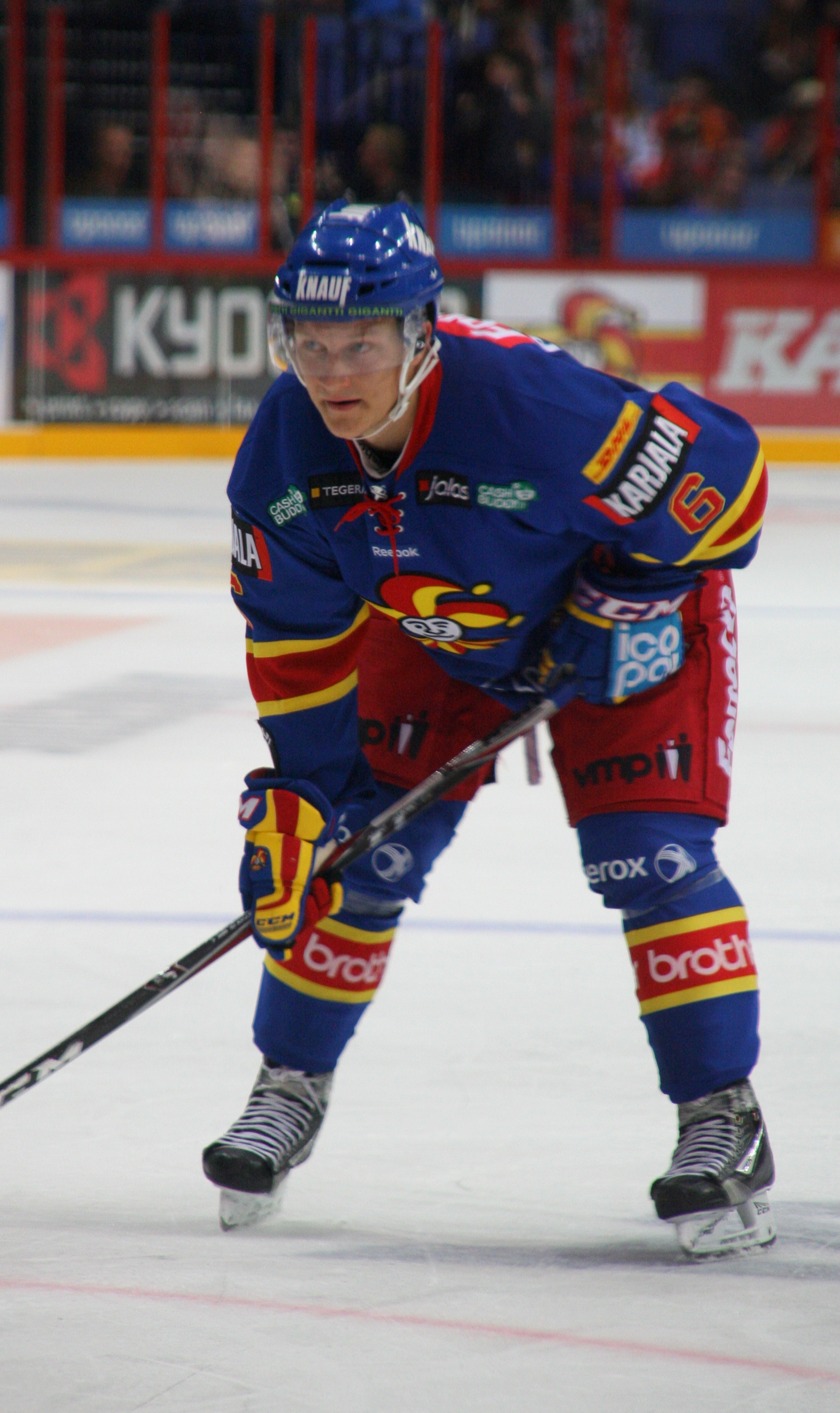 Ice Hockey Team Helsingin Jokerit's Attacker #6 Teemu Pulkkinen